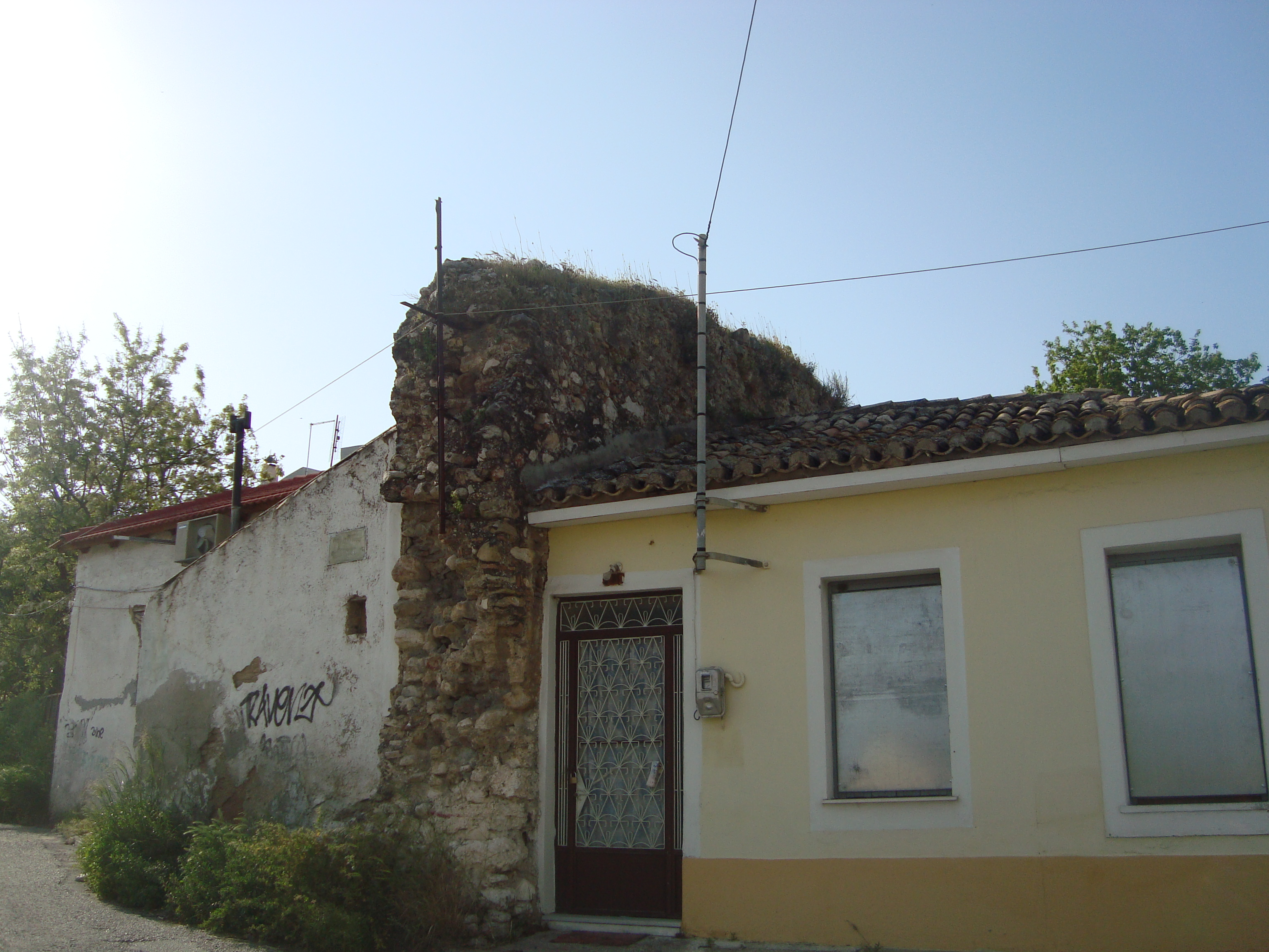 Wall of Castle of Patras